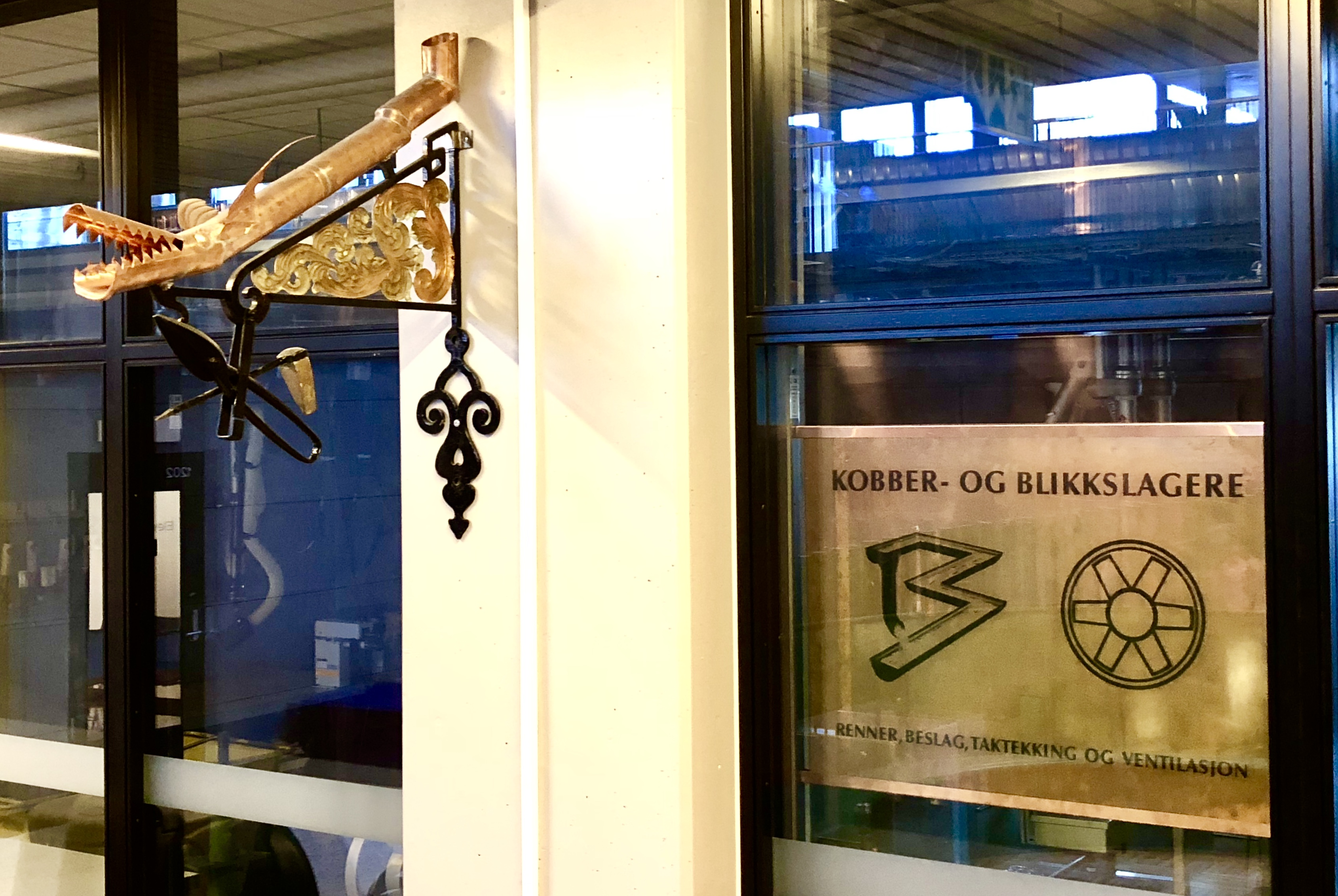 Student made tin art and sign